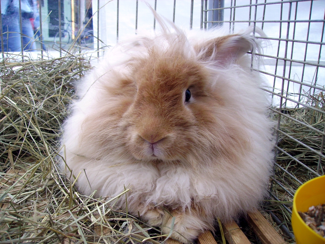 Angora rabbit